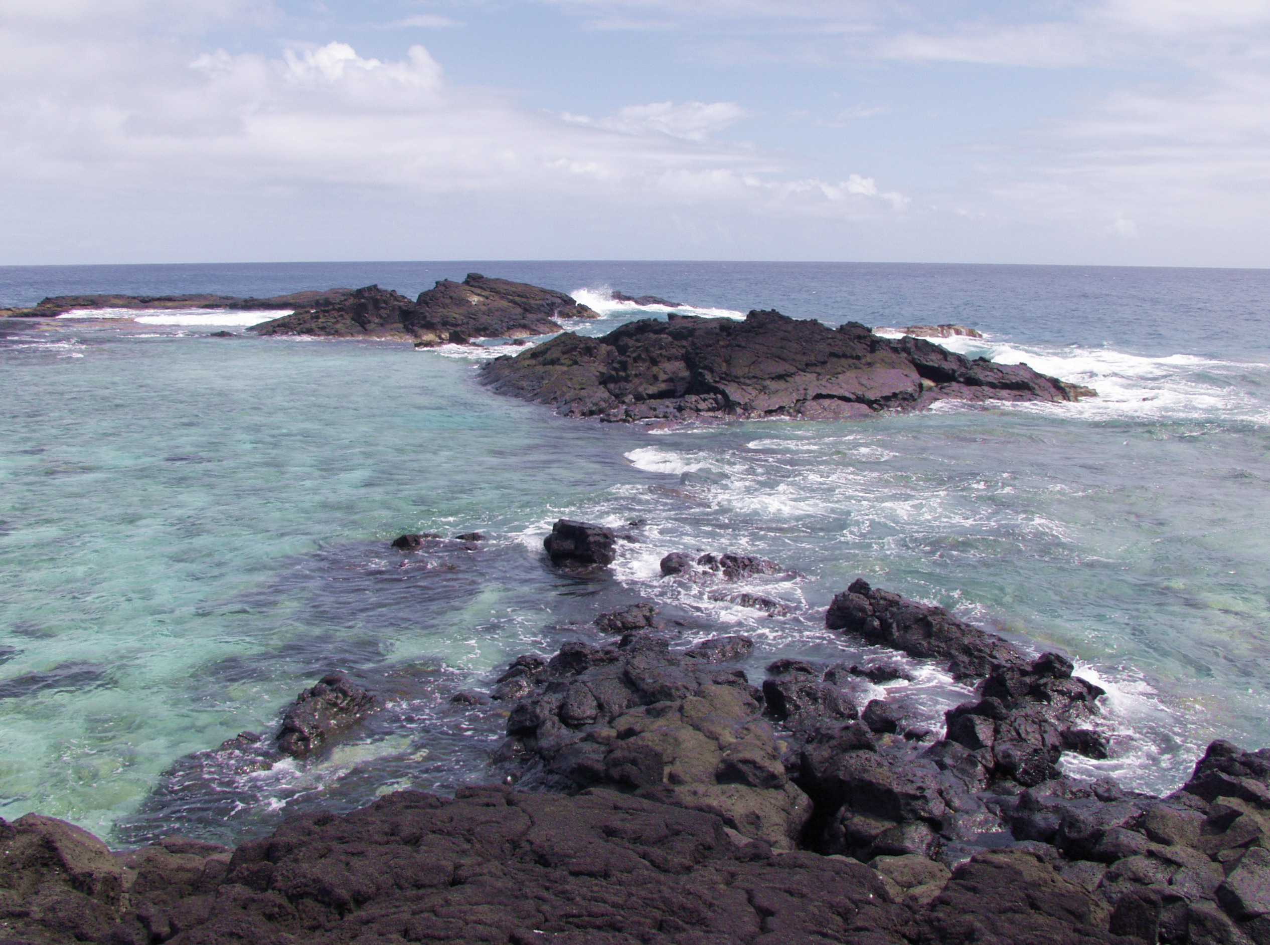 Looking westward at the western tip of Savai'i. Photograph by CloudSurfer